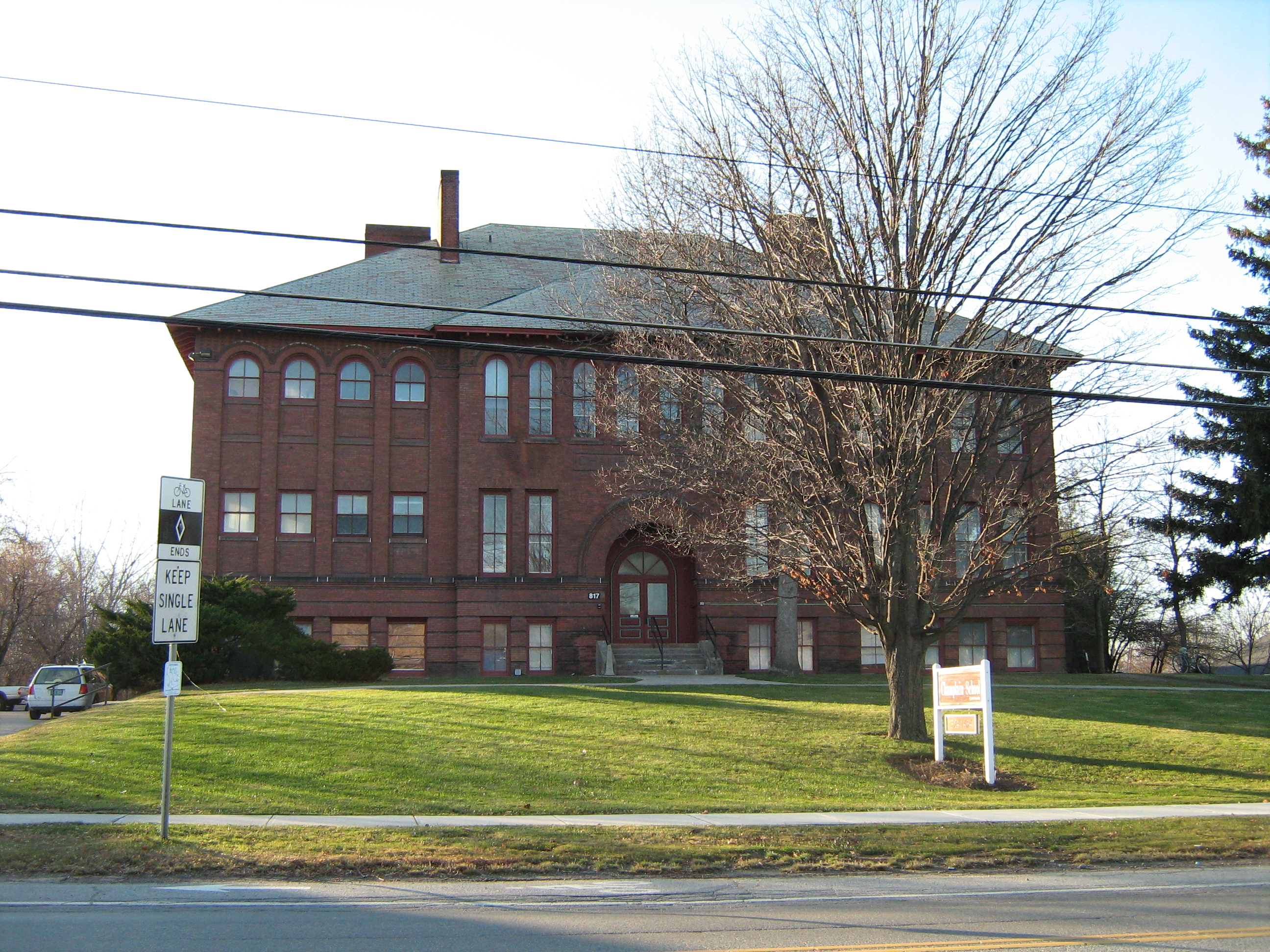 Former elementary school, now apartments (with addition in rear)